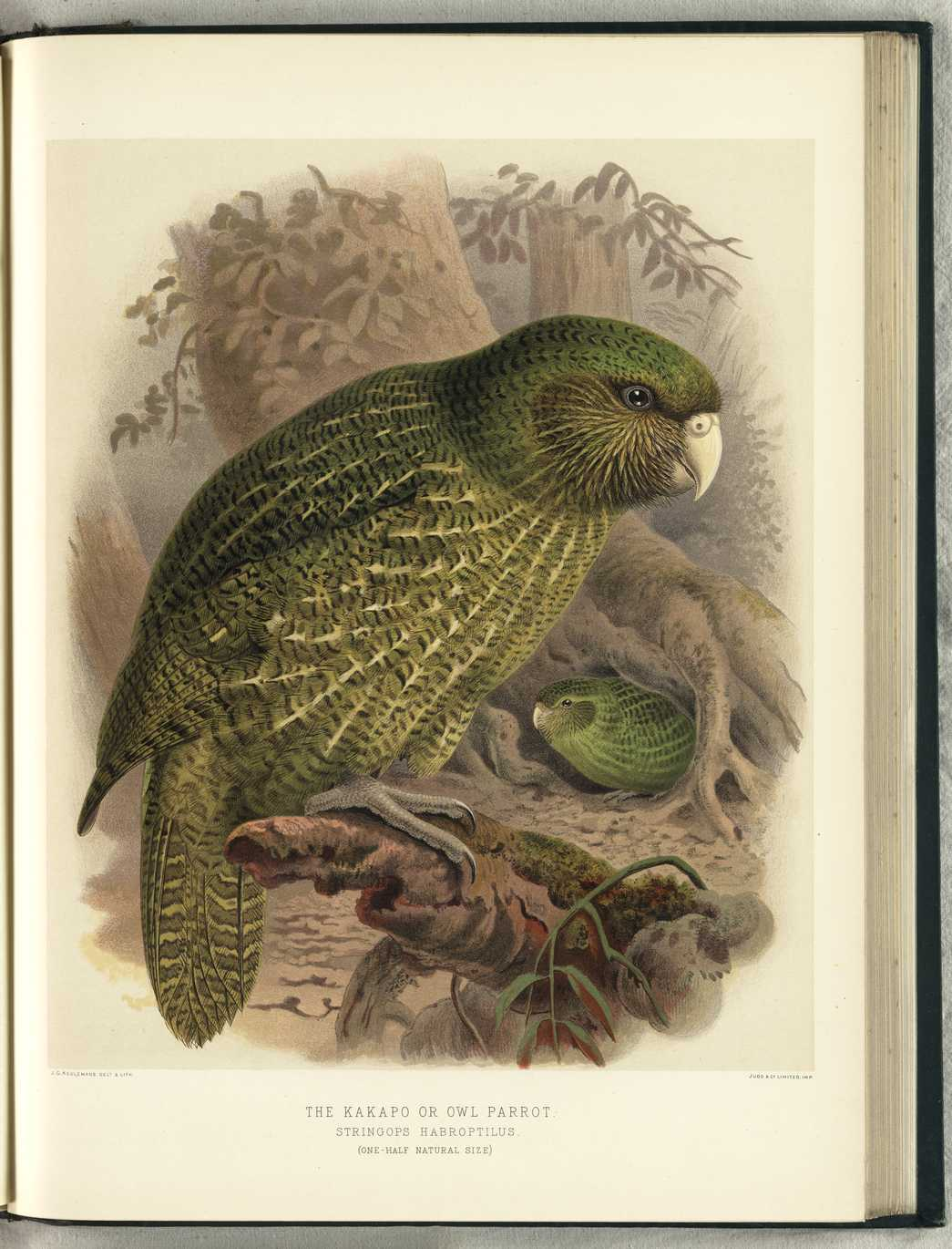 Illustration of a Kakapo. Māori: Kakapo